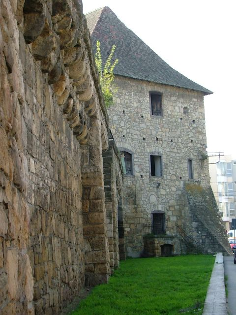 Bastion in Cluj Napoca